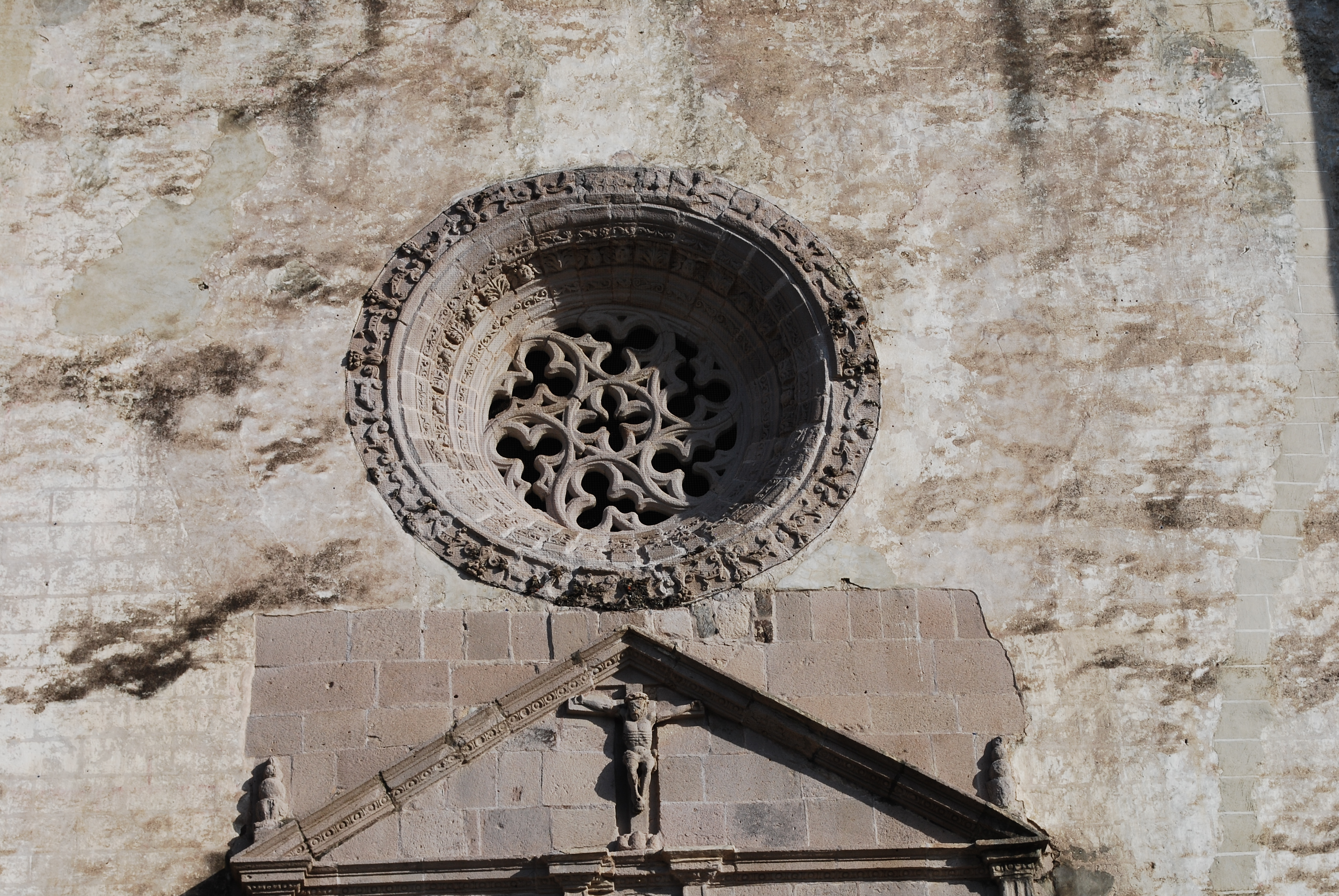 Rose window on the facade of the San Juan Bautista church in Yecapixtla, Morelos, Mexico